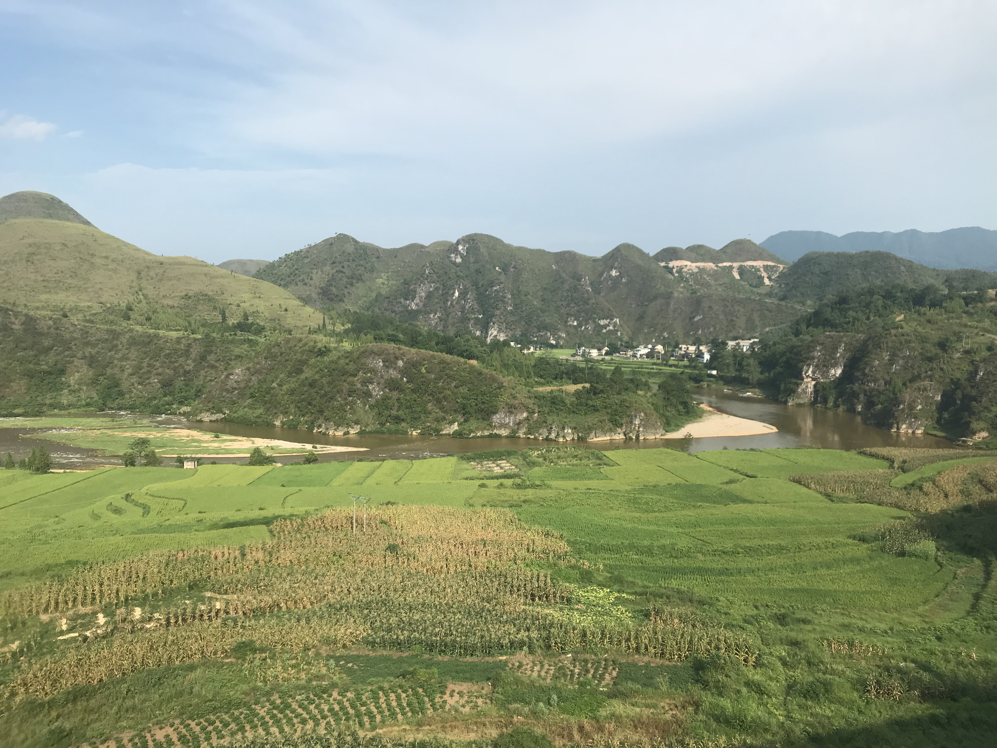 201908 Chong'an River in Panghai, Kaili